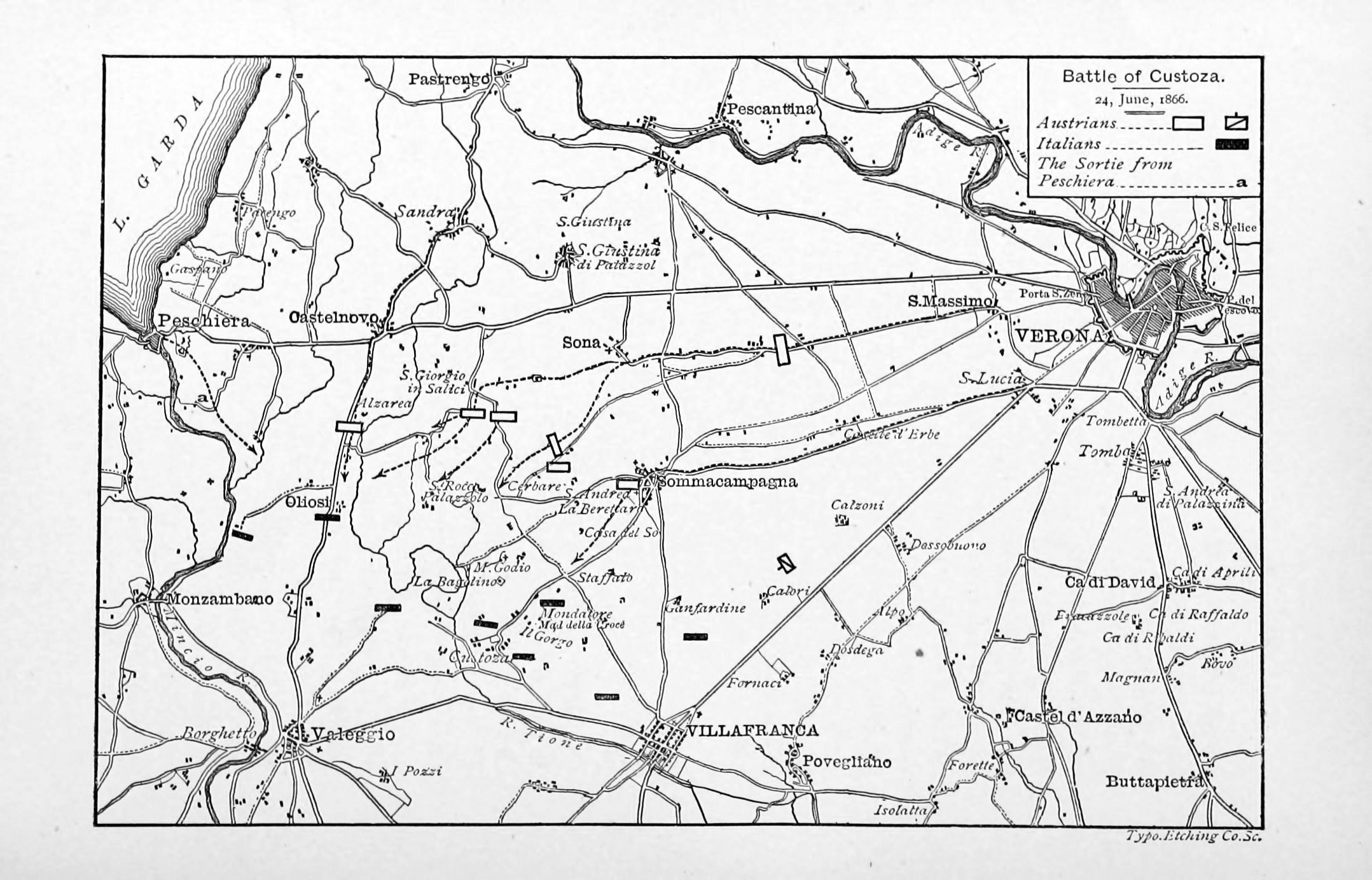 Image extracted from page 208 of The Refounding of the German Empire, 1848-1871 ... With portraits and plans', by MALLESON, George Bruce. Original held and digitised by the British Library. Copied from Flickr. Note: The colours, contrast and appearance of these illustrations are unlikely to be true to life. They are derived from scanned images that have been enhanced for machine interpretation and have been altered from their originals.